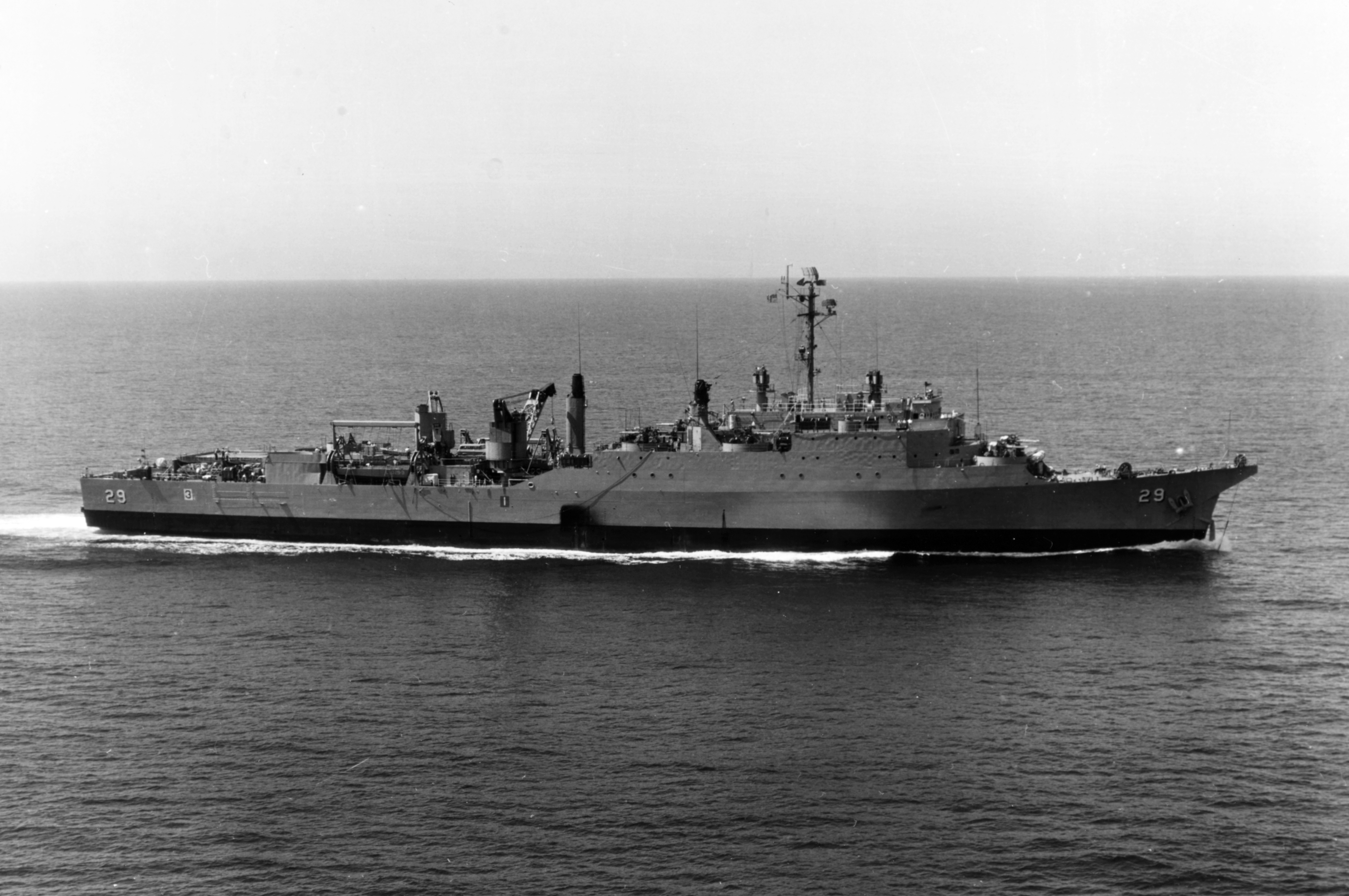 The U.S. Navy dock landing ship USS Plymouth Rock (LSD-29) underway shortly before deploying to the Mediterranean for a tour with the Sixth Fleet, 8 April 1963. Note the experimental retractable sonar fitted to her bow